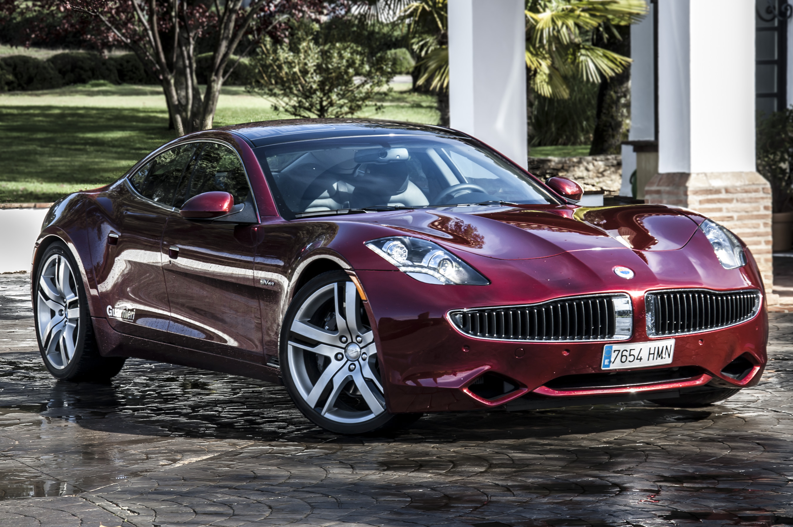 Fisker Karma at Ascari Circuit.